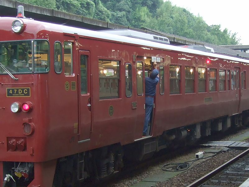 changing operation of train destination sign(at Hitoyoshi Station, Hitoyoshi, Kumamoto)